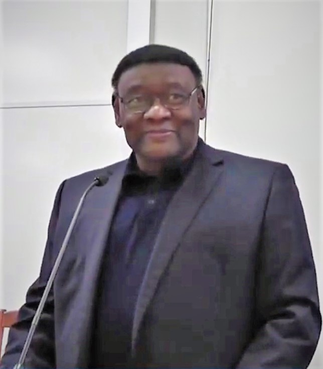 Centennial Symposium Opening Remarks Learn More at Opening Remarks Isaiah McKinnon 6:30 The speakers contributed to this symposium in their personal capacity. The views expressed are their own and do not necessarily represent the views of the University of Detroit Mercy, Detroit Mercy Law, UDM Law Review, or their employers.